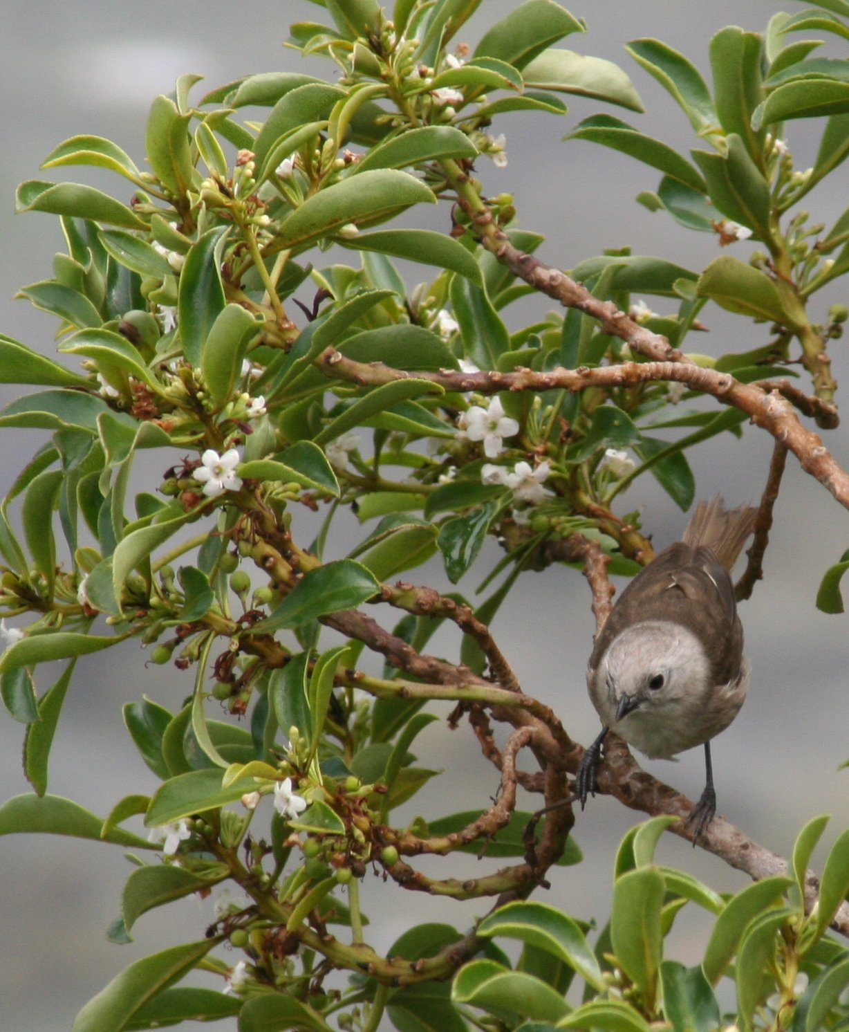 Whitehead, Mohoua albicilla, Tiritiri Matangi Island, New Zealand.